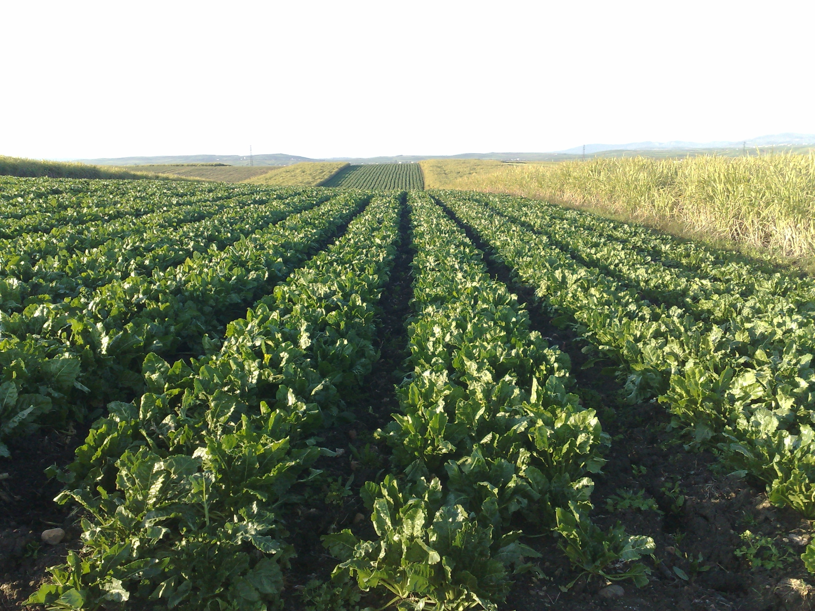 المزروعات 2